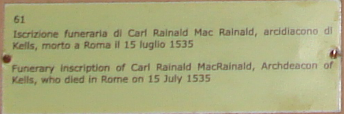 Label stating the grave slab belongs to Charles Reynolds.